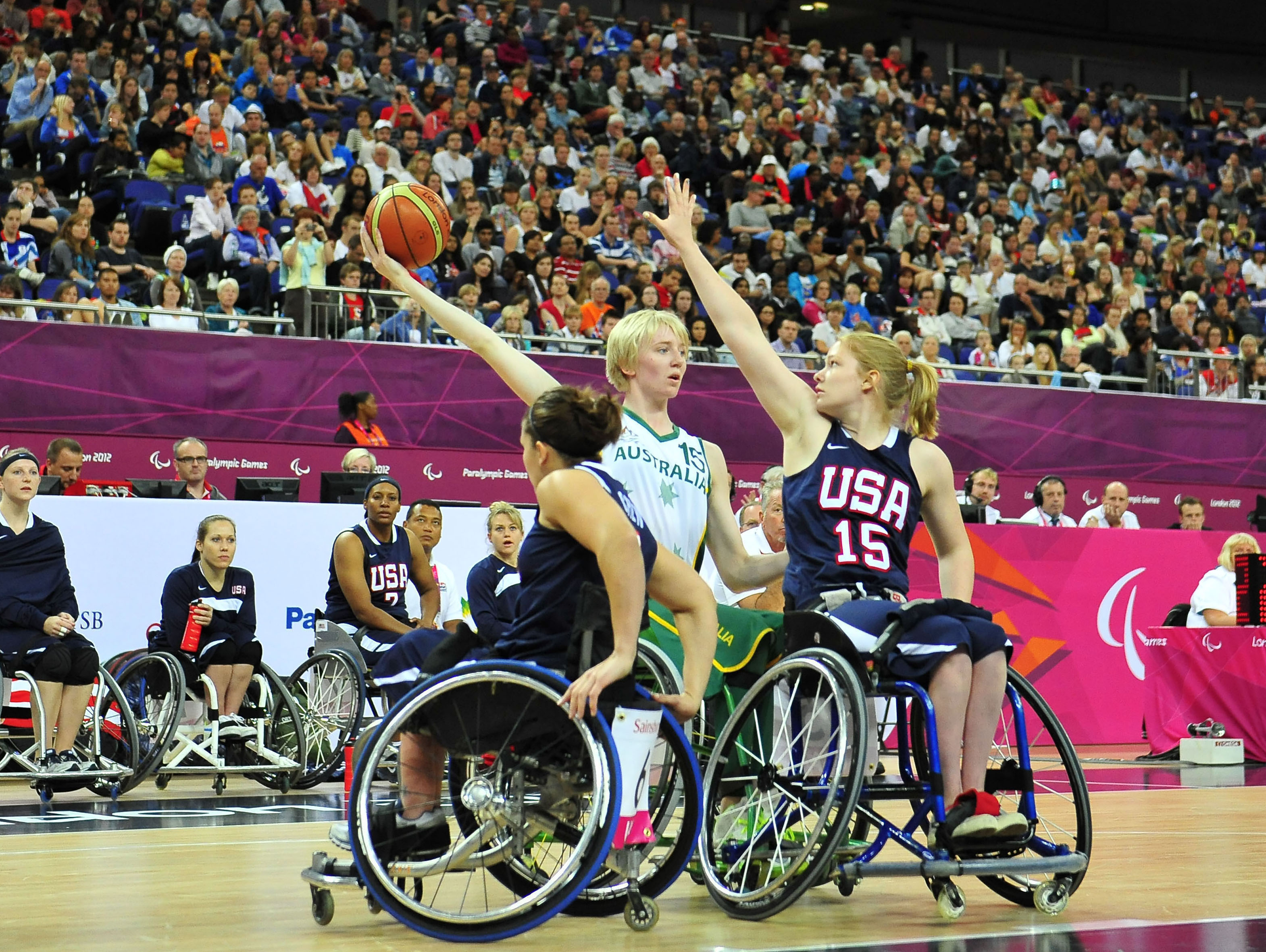 Photograph of Australian Paralympic team member Amber Merritt at the 2012 Summer Paralympic Games in London